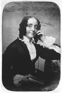 Ernestine Rose b. 13 January 1810 d. 4 August 1892. Ernestine Louise Rose spoke at many conventions, and was chosen president in 1854. Ernestine Rose.